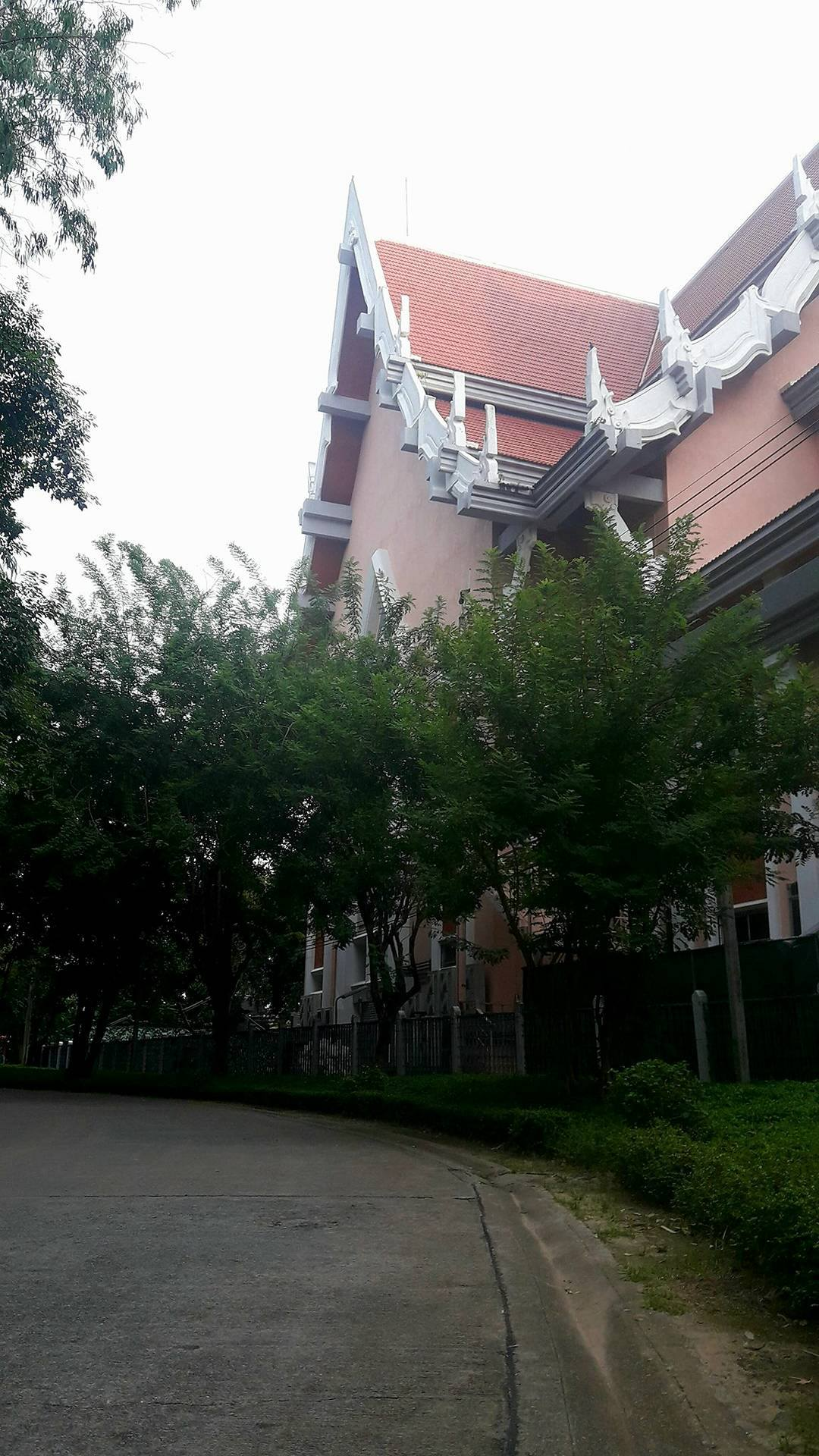 The National Library of Thailand